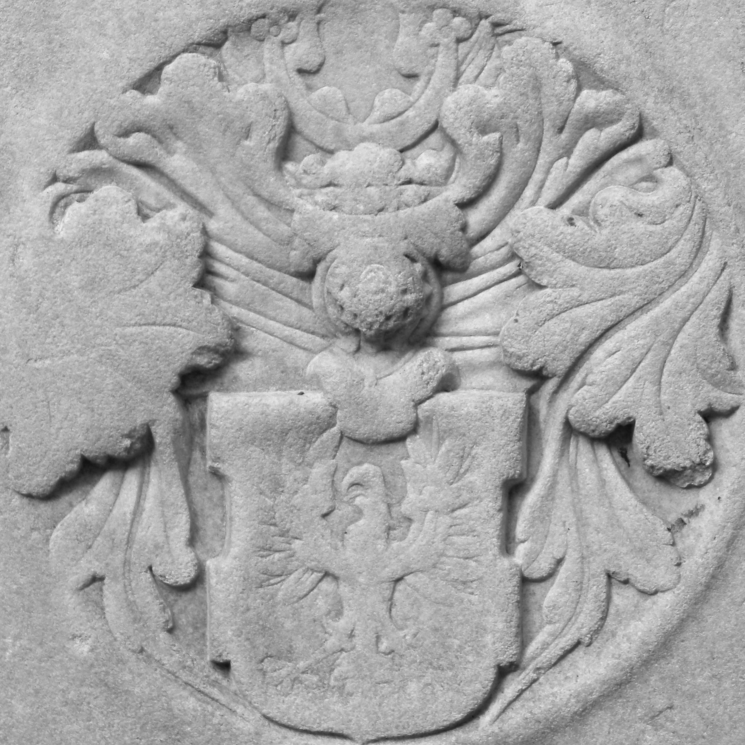 Coat of arms of Jan Čejka z Olbramovic (+1623). Epitaph at the facade of the cathedral of St. Peter and Paul, Brno, Czech Republic. See also HANÁČEK, Jiří: Heraldické památky na Petrově, In: Heraldická ročenka 1984, p. 18 - 19: Inscription: "(LETHA 1623 OSMYHO DNE MIESY)CZE // (JULII W SOBOTU PO STEM PROK)OPU // (MEZY CZTWRTAU HODINAU NA USWI)TIE // (WIEKU SWEHO 57 UMRZEL GEST UROZENY) A STA // (TECZNY RYTIRZ PAN JAN TYBURCZ C)ZEGKA // (Z OLBRAMOWICZ A TUTO) TIELO, // (GEHO MRTWE POHRZBENO GES)T GE // (HOZTO DUSSI PAN BUH) RACZ // MILOSTIW BYTI".